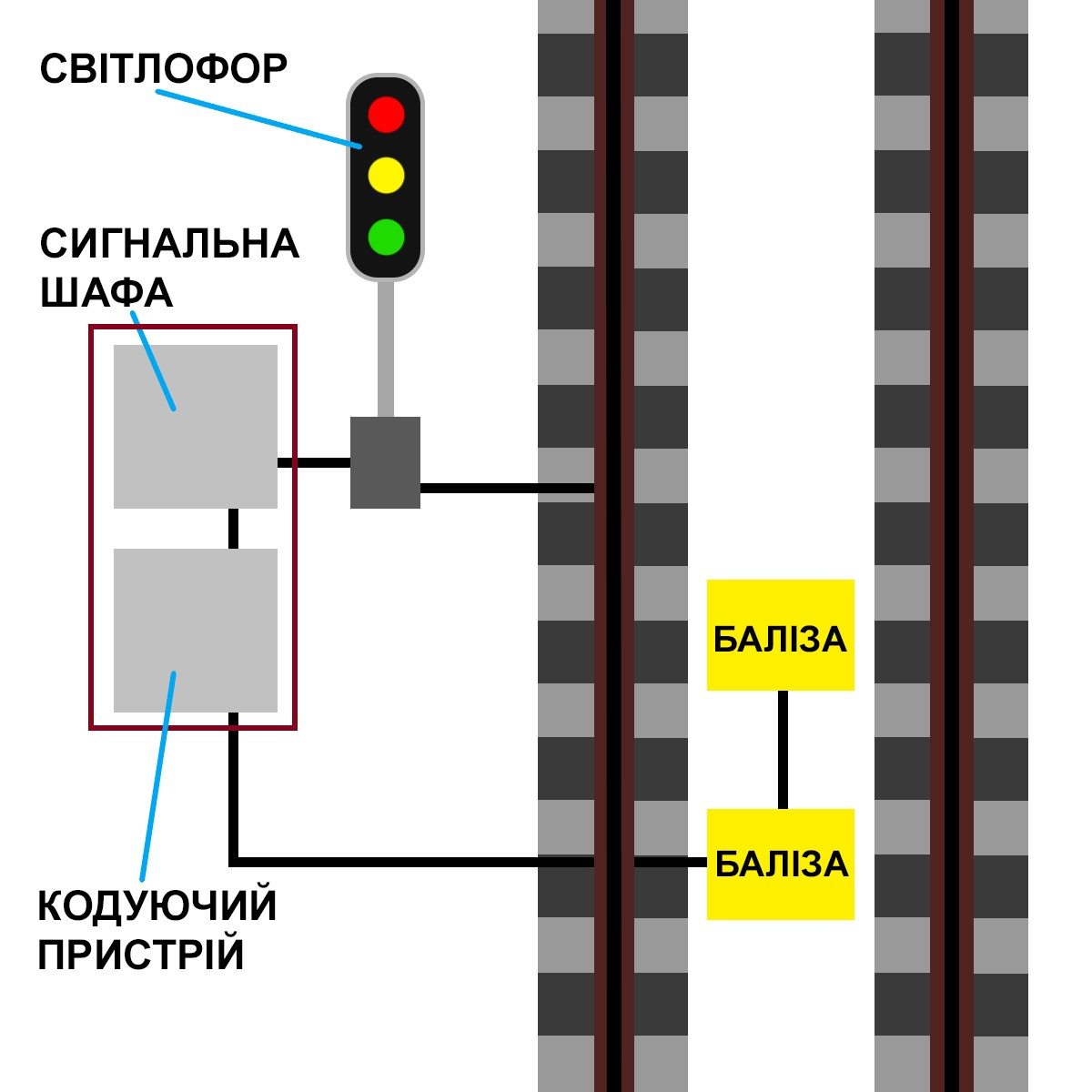 KVB GENERAL UKR